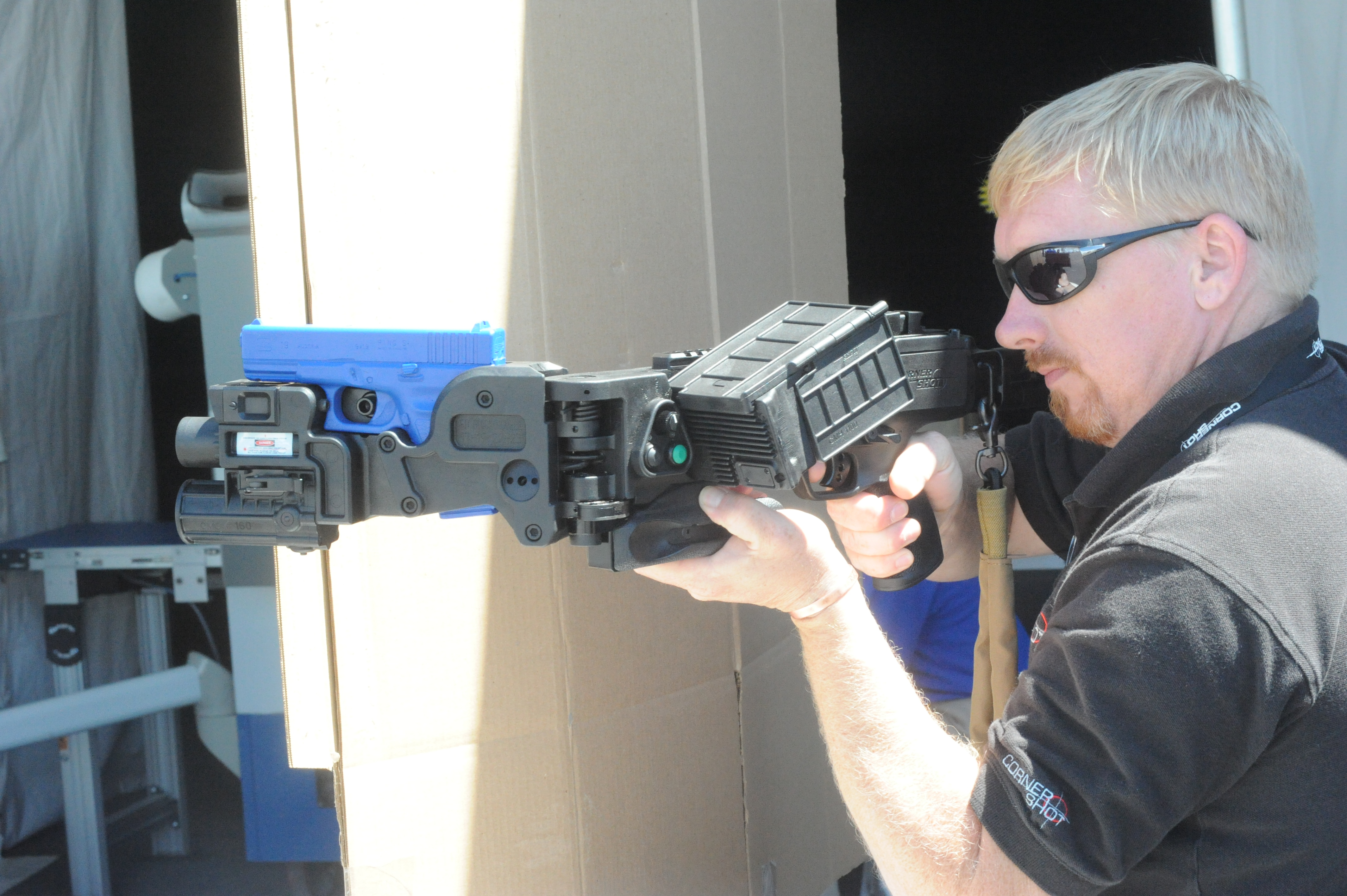 Daniel J. Meyer demonstrates how to use the CORNER SHOT, a weapon used to observe and engage targets from around the corner, at FPED VII April 19 which was hosted by the Stafford Regional Airport.